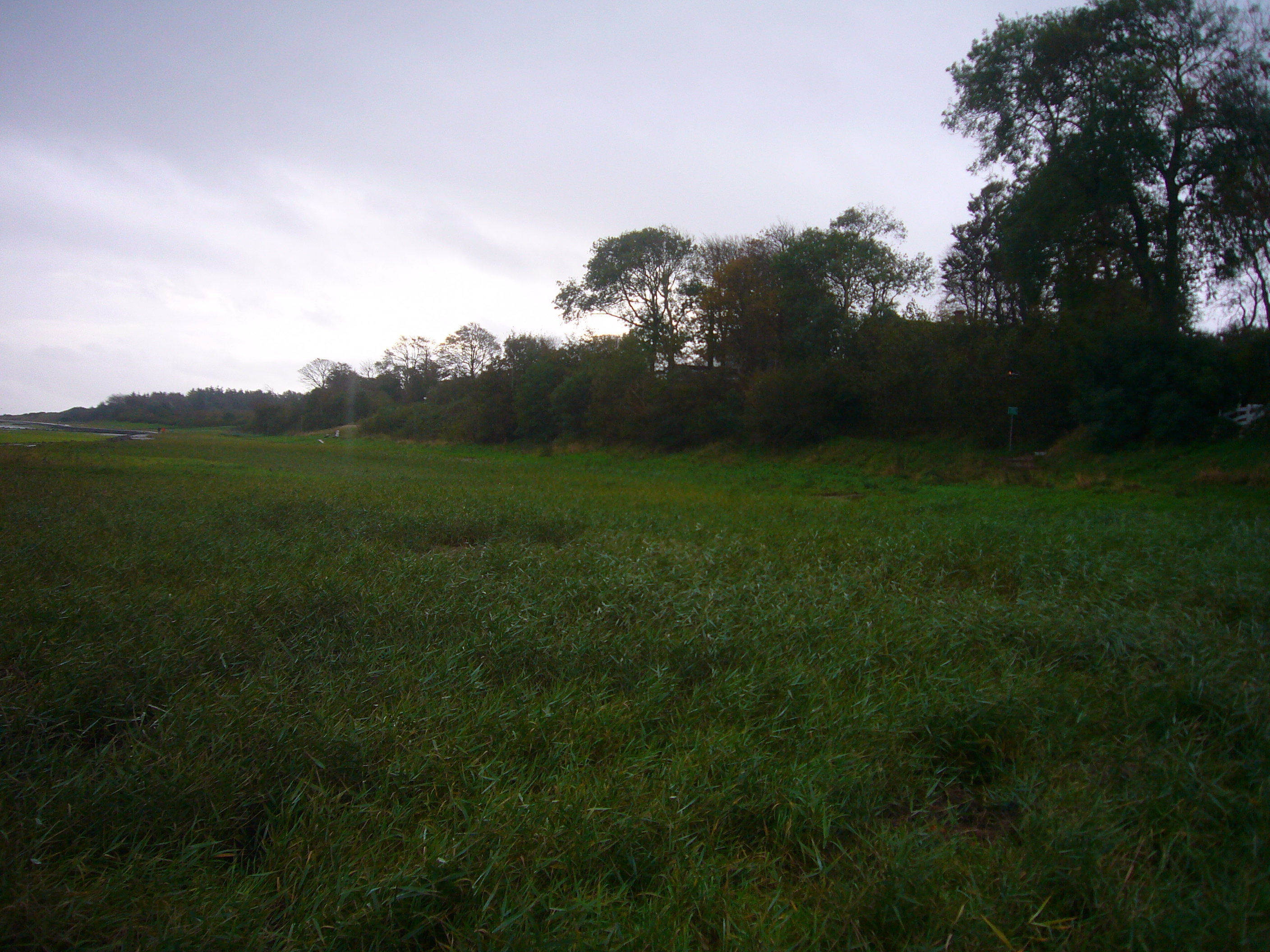 Green cliff